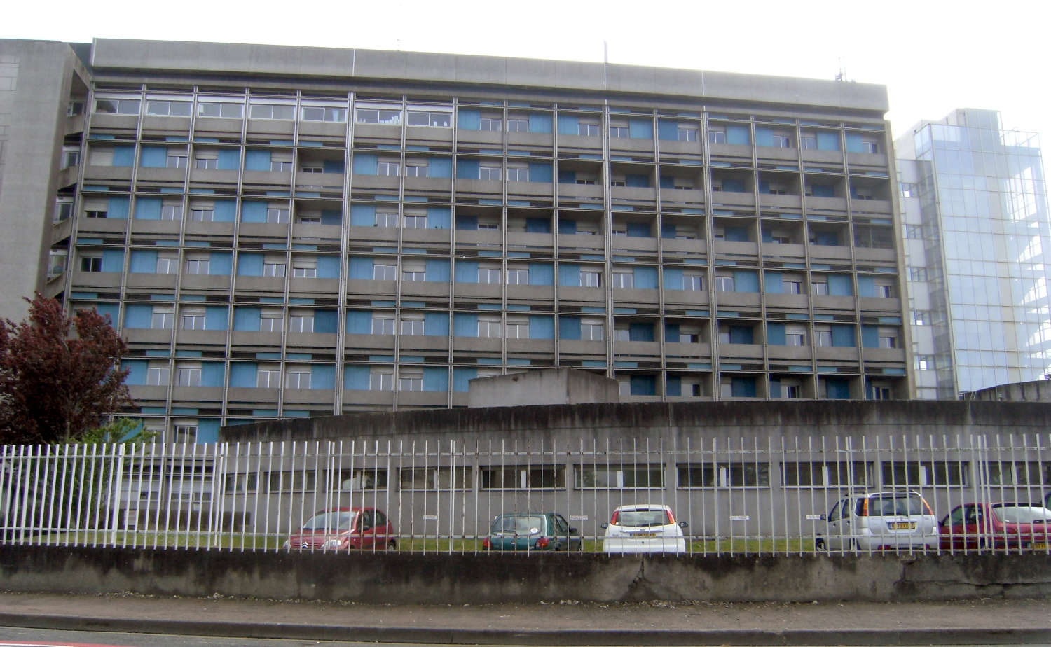 Hôpital Saint Charles de Rochefort